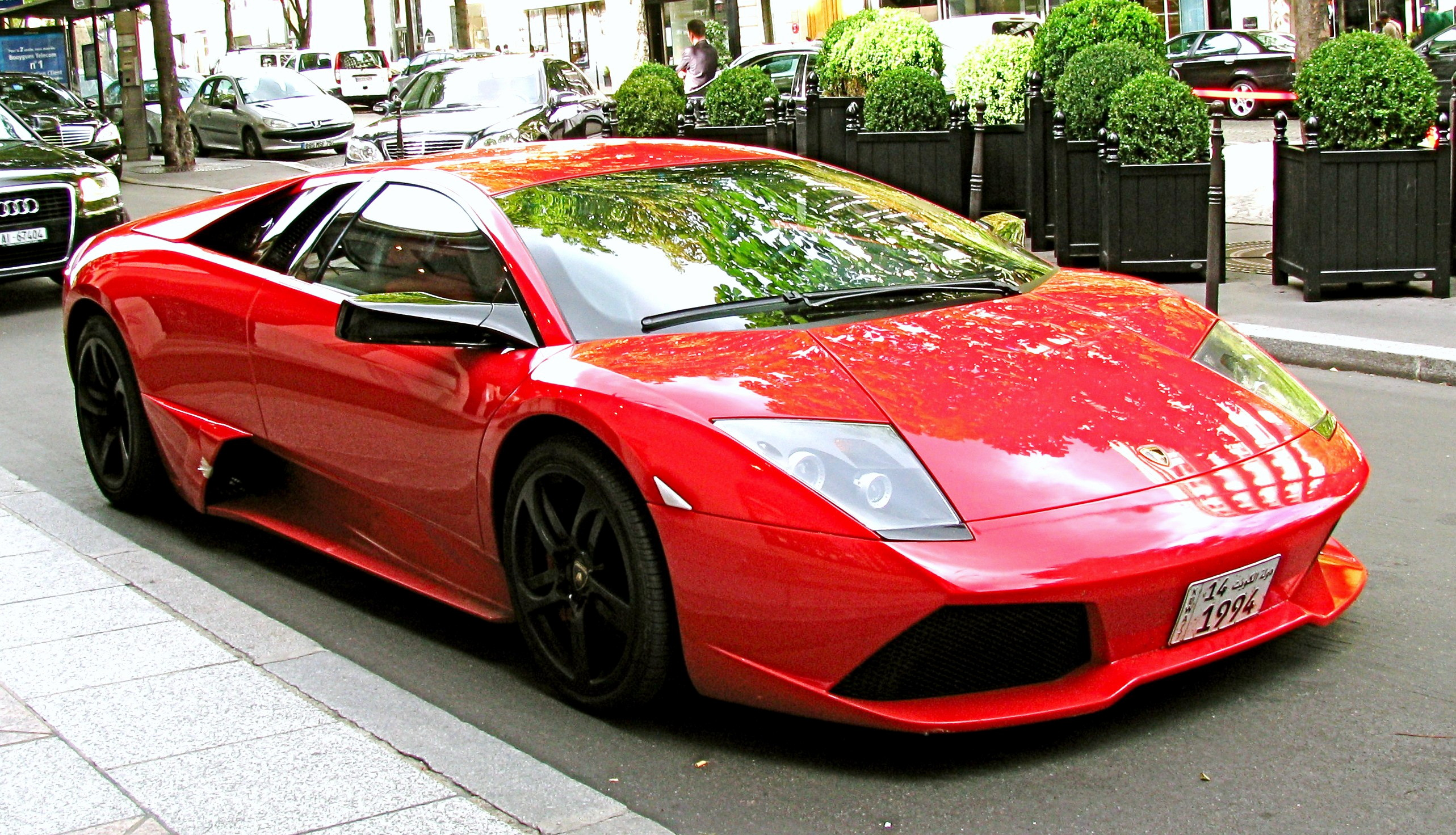 A cherry red Lamborghini Murcielago